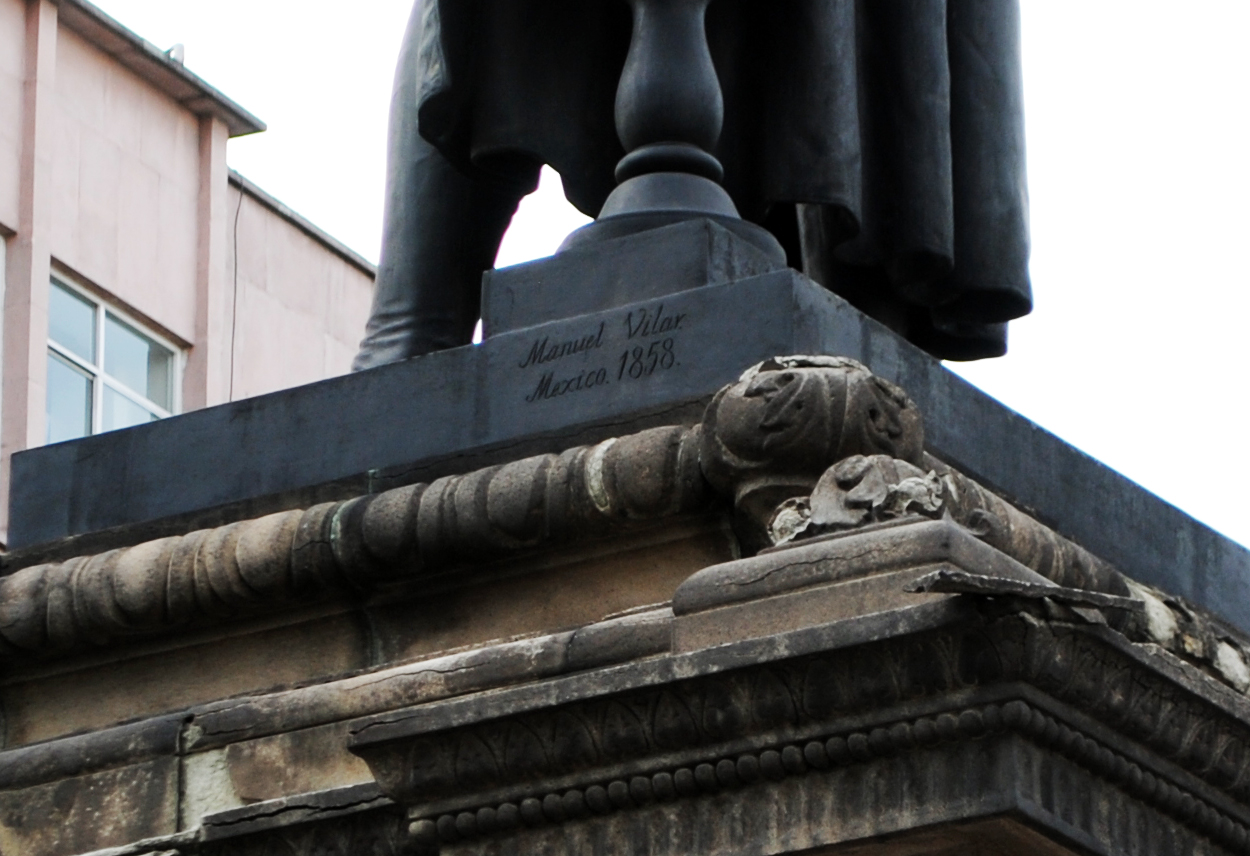 Detail of Manuel Vilar's signature. Mexico City.